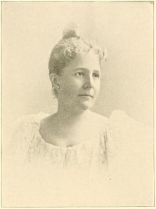 Lizzie Gilpin